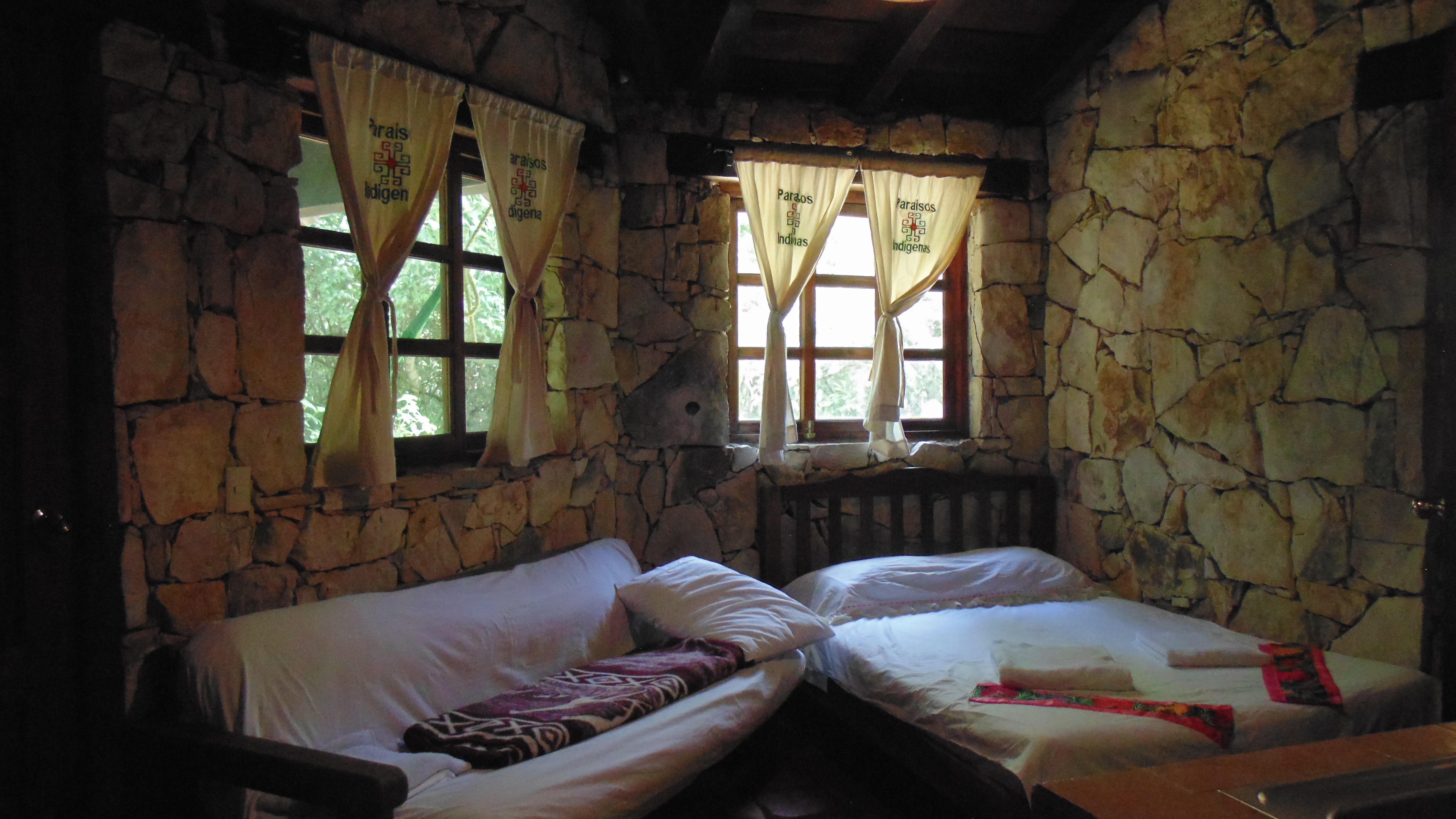 Overview of the double room of the cabins inside the ecological park of Sima de las Cotorras in Ocozocoautla, Chiapas, Mexico.